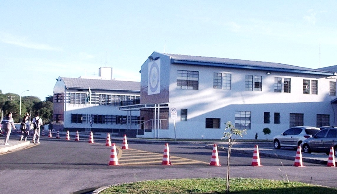 School of Military Police - Parana / Brazil.